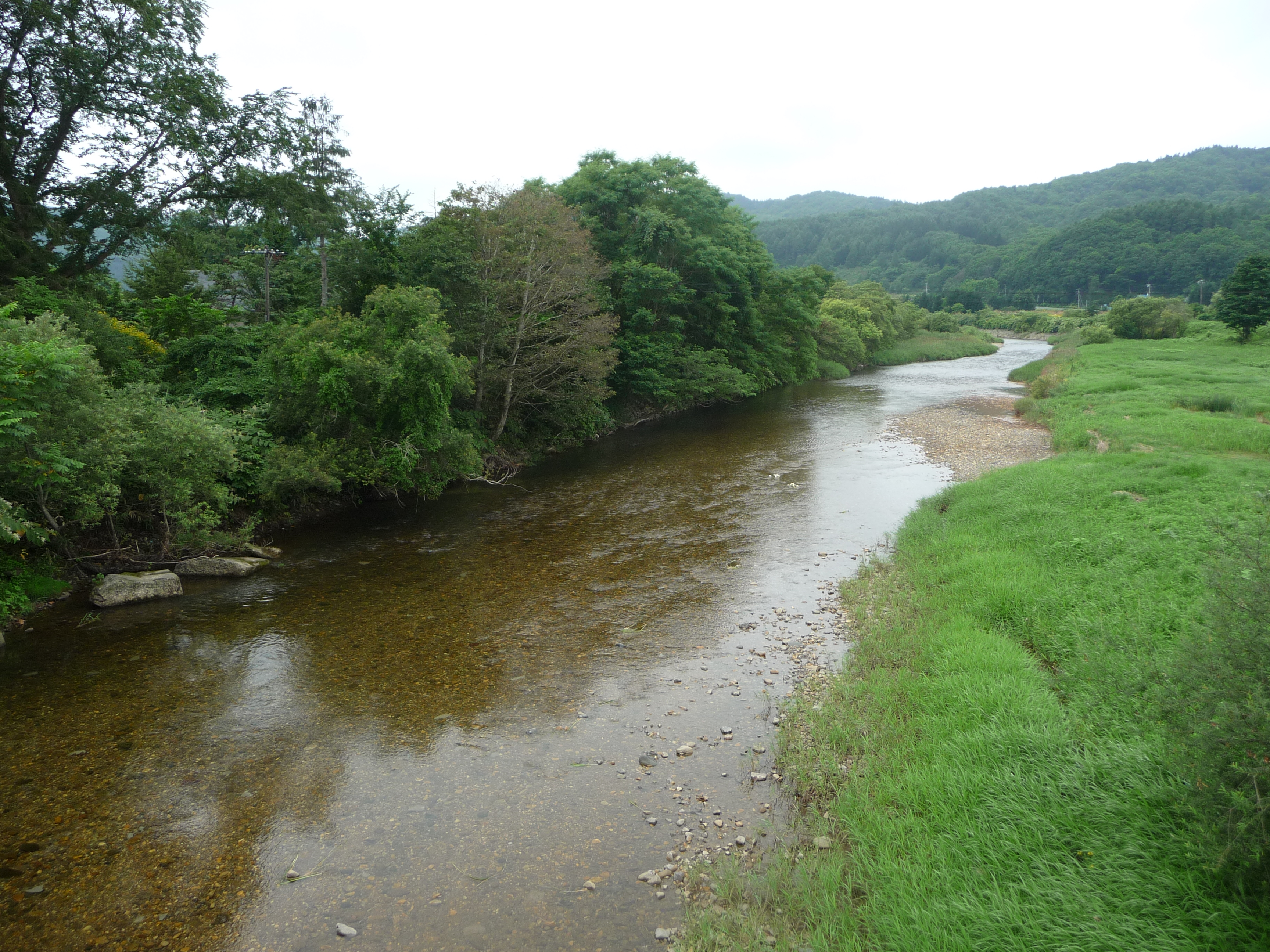 Amanoriver ,Hokkaido prefecture.